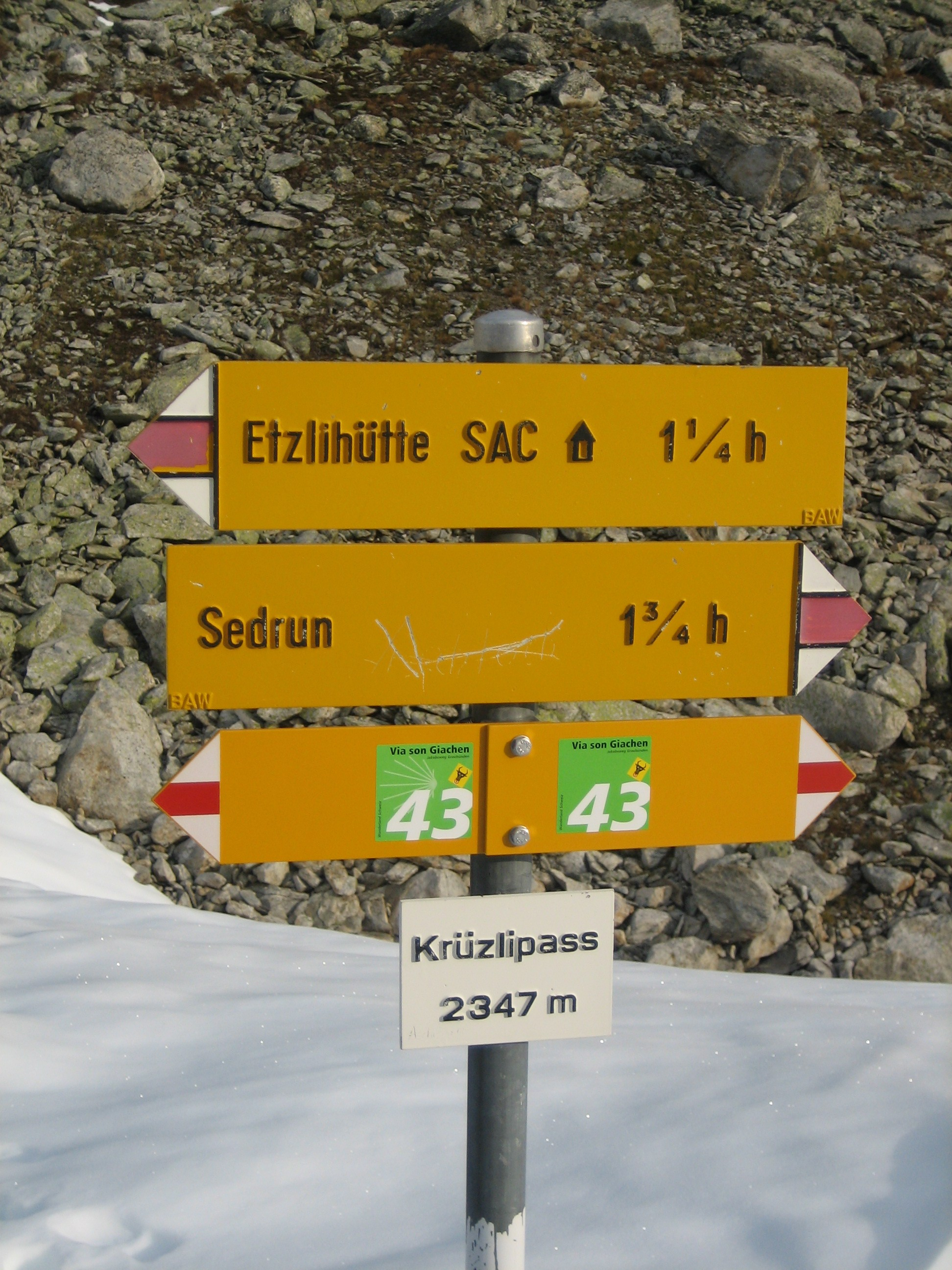 Fingerpost on Chrüzlipass, Silenen UR, Tujetsch GR, SwitzerlandRumantsch: Mossaveias segl Chrüzlipass, Silenen UR, Tujetsch GR, Svizra